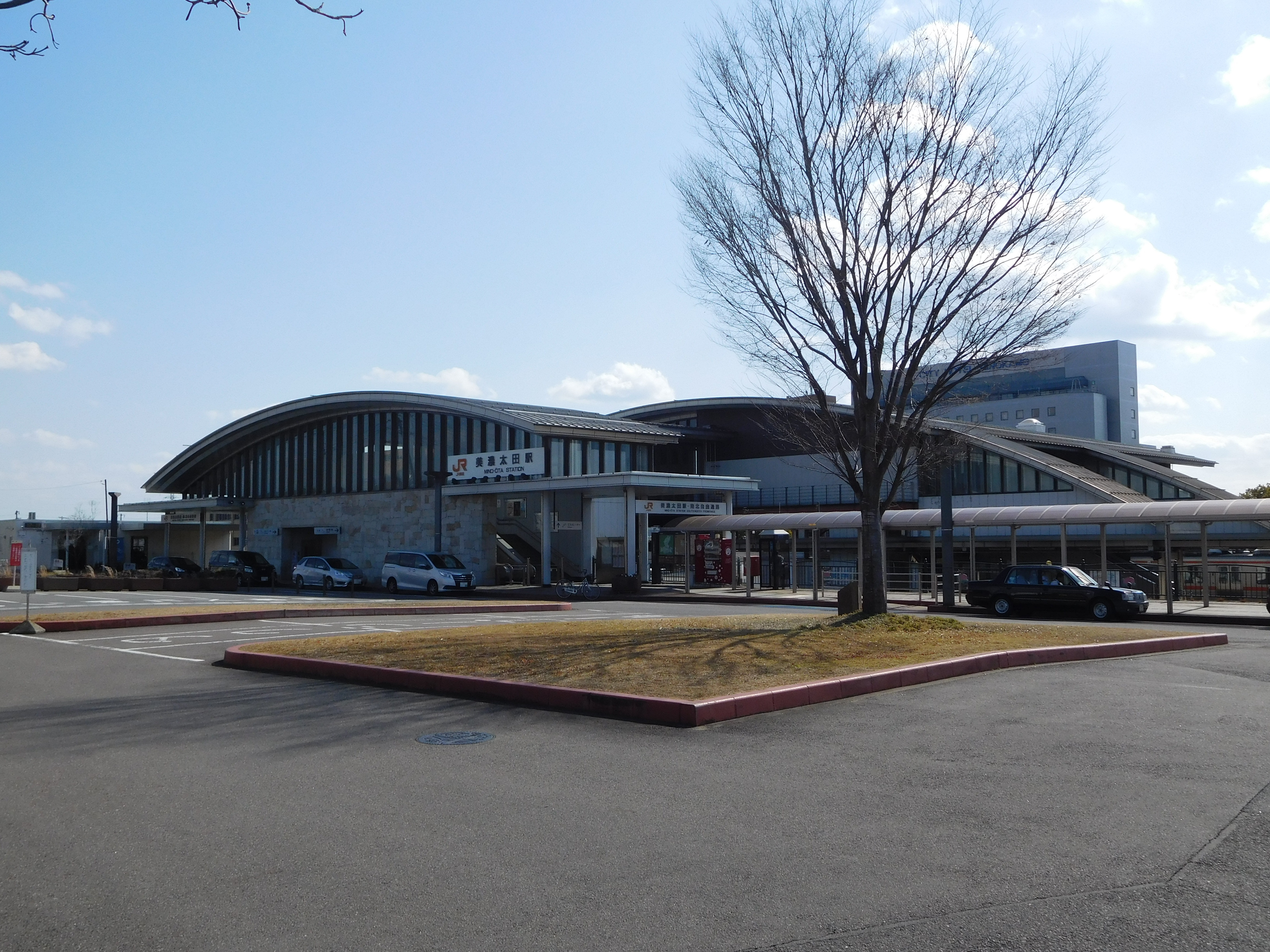 This is the north exit of Mino-ōta station in Minokamo, Gifu, Japan.